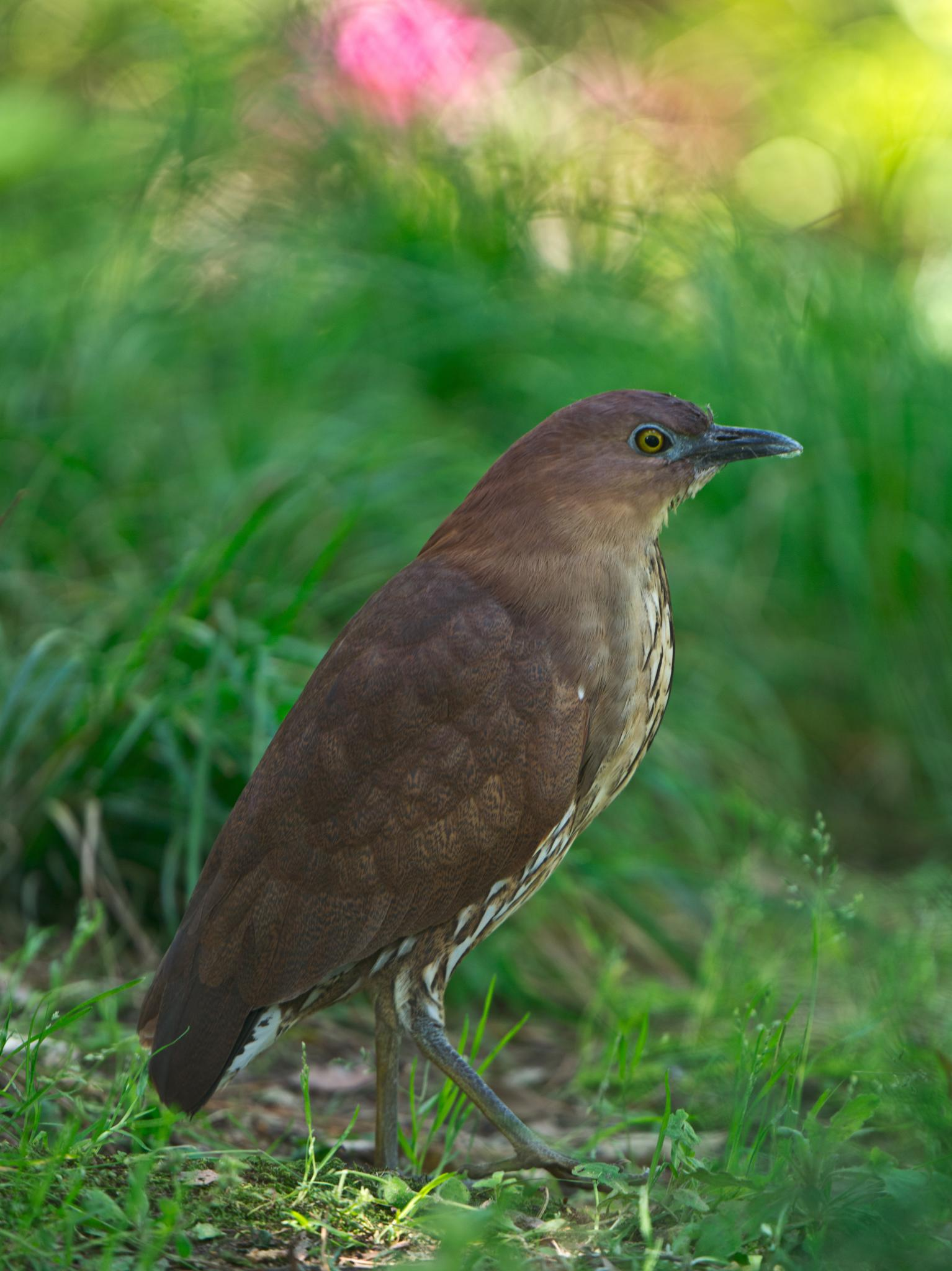 Japanese night heron (Gorsachius goisagi) at Osaka Castle, Chūō-ku, Osaka, Japan.